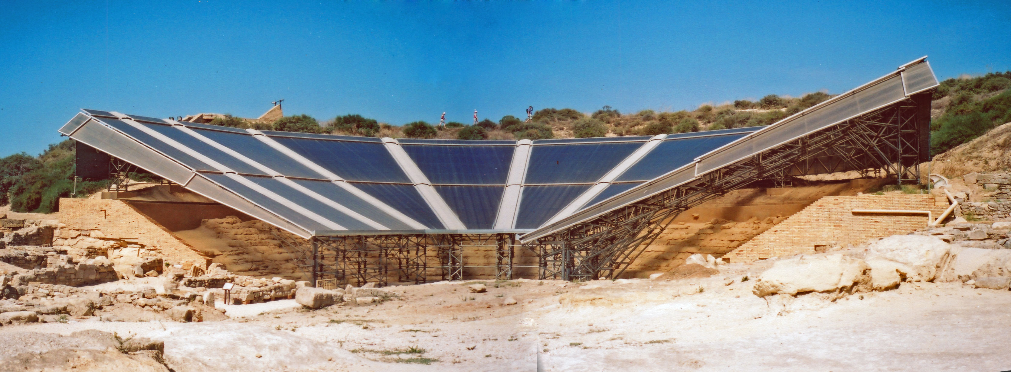 A theatre built at the Greek colony of Herakleia Minoa on the south coast of Sicily between Selinunte and Agrigento.